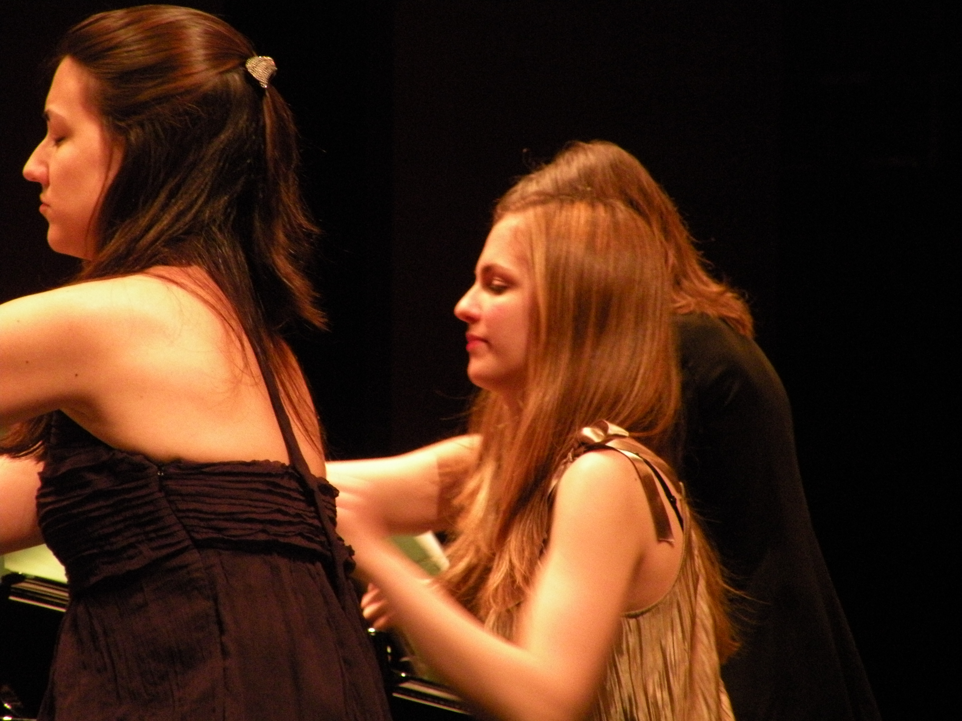 The serbian pianists Lidija (l.) and Sanja (r.) Bizjak, on 31 January 2009 during La Folle Journée in Nantes.